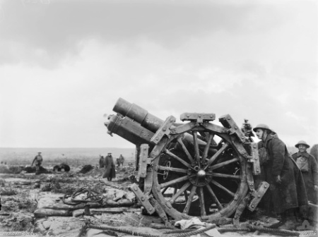 Ypres area. A 6 inch howitzer, one of a battery which participated in the Third Battle of Ypres. "Girdles" are attached to the wheels to facilitate passage of the gun over the muddy ground. NOTE : The AWM caption incorrectly describes this as an 8 inch howitzer.